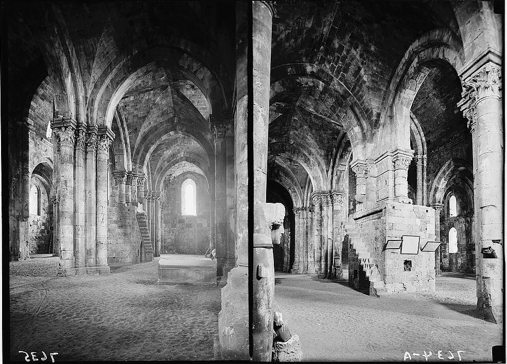 Notre dame de Tortosa (Tartus)